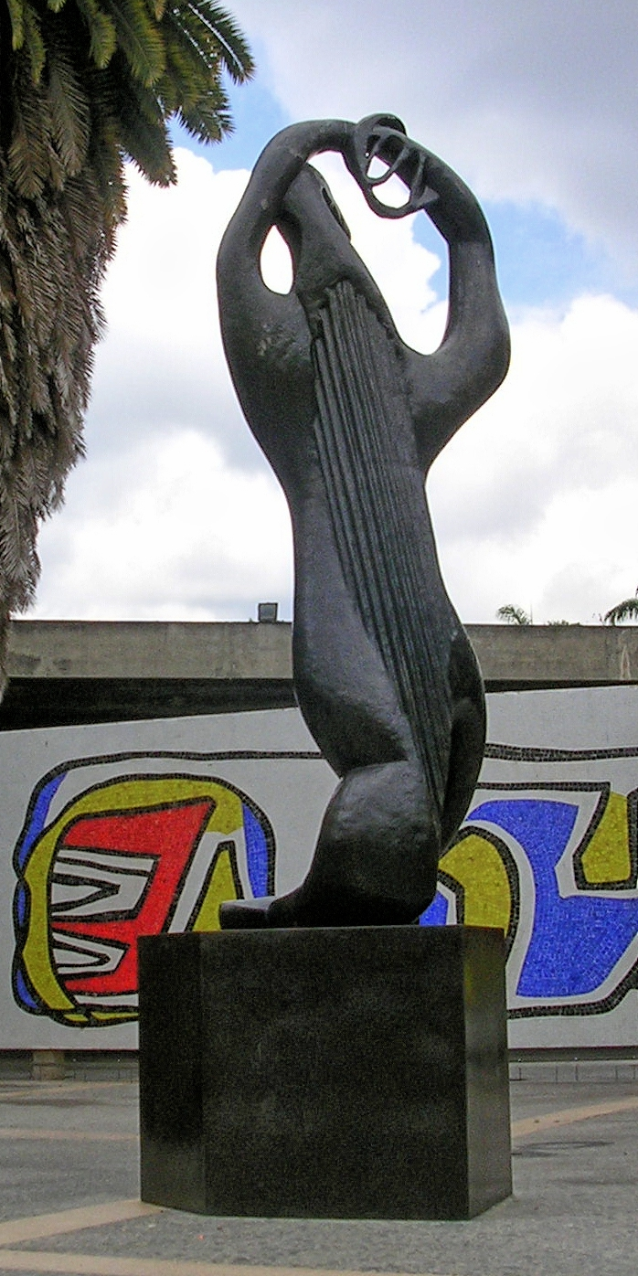 Henri Laurens "L'Amphion" at the Coveved Plaza of the Central University of Venezuela Photo by Caracas1830 (2005)